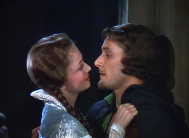 Olivia de Havilland and Errol Flynn in the original trailer for The Adventures of Robin Hood, 1938